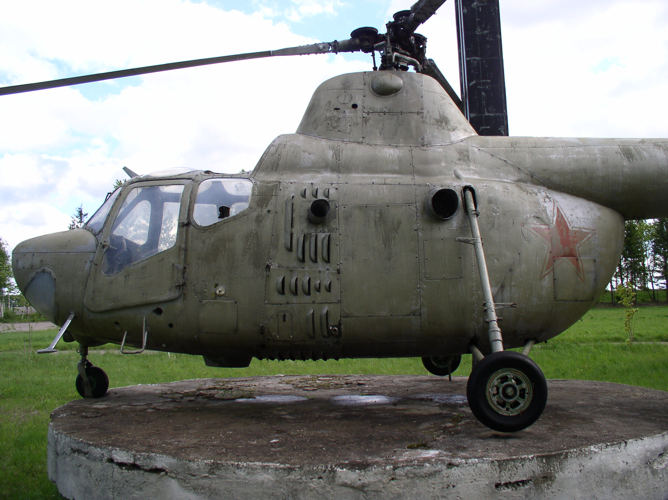 Helicopter Mi-1 of Vitsebsk's aeroclub. Belarus.